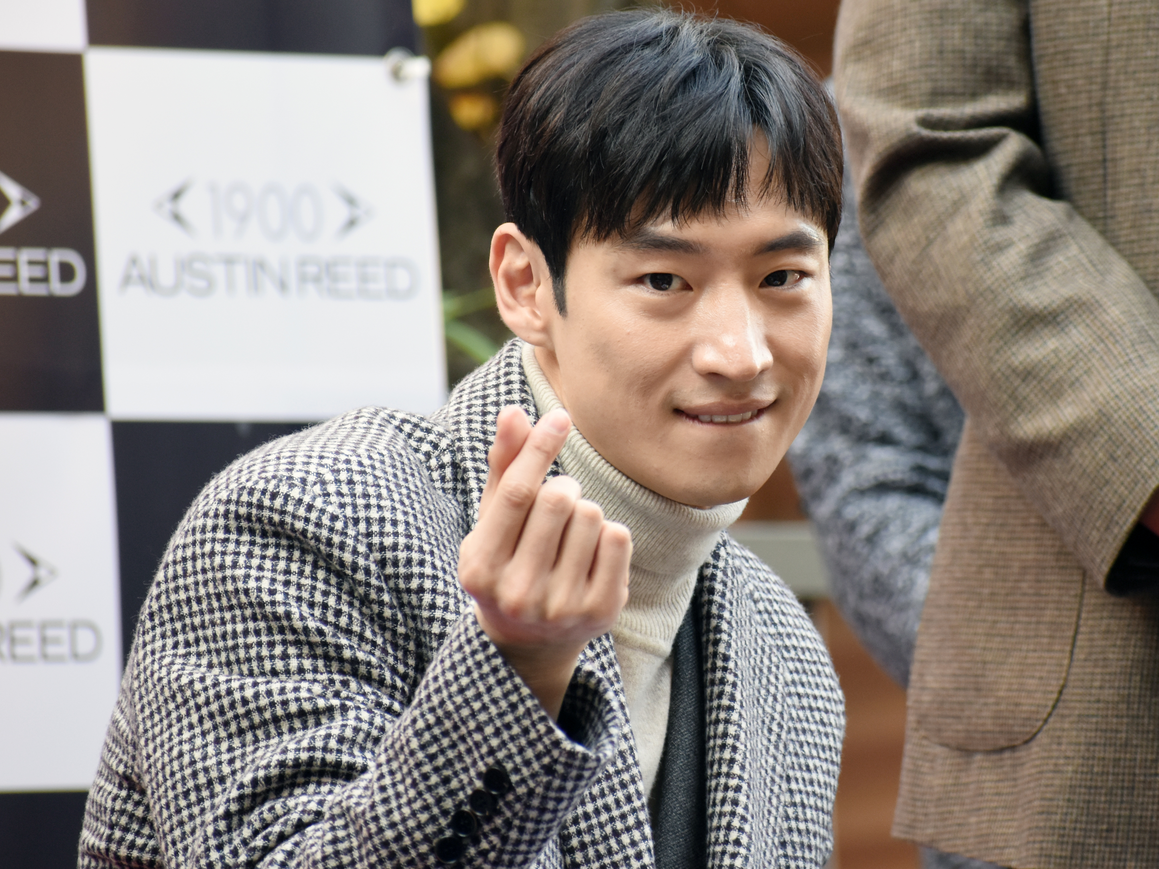 Lee Je-hoon at a fansign event for Austin Reed at Mario Outlet in Gasan-dong on November 3, 2018.